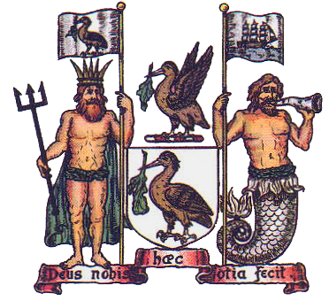 The coat of arms of Liverpool City Council